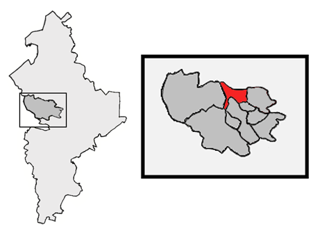 Municipality of Escobedo, Nuevo León. Made by Vince on September 4th, 2005